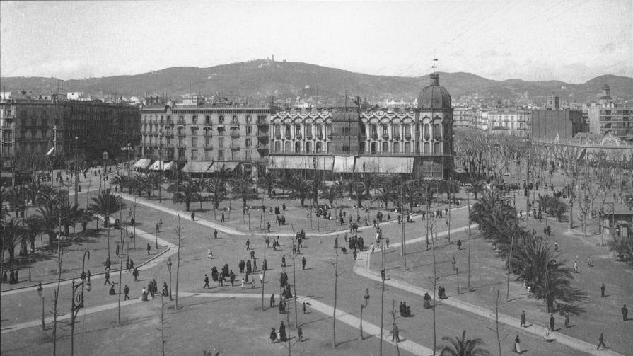 Plaça de Catalunya, Barcelona, ca. 1915